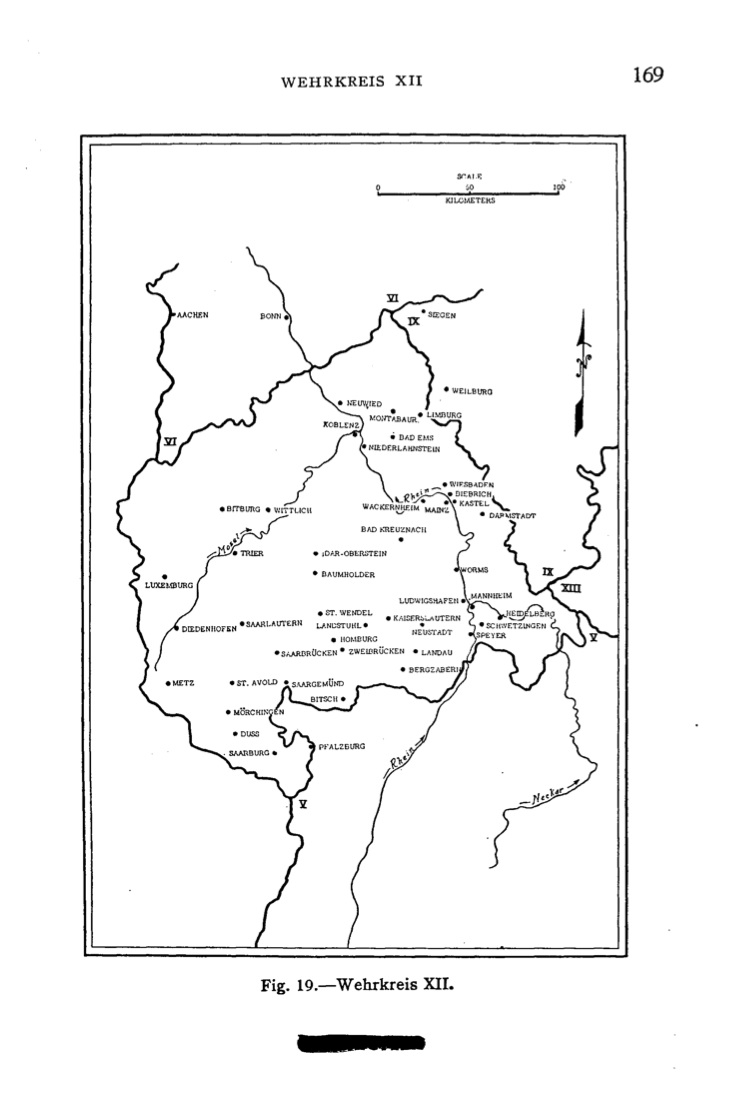 Map of the Wehrkreis, Military District, XII.